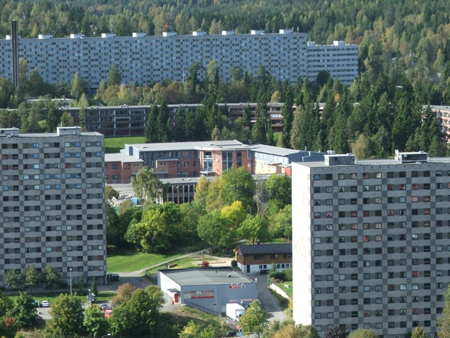 School and blocks in Ammerud